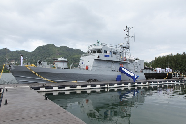 Commissioning Seychelles Coast Guard patrol vessel PS Constant. Original caption: “PS Constant docked at the Seychelles Coast Guard base before the handing over this morning. (Mervyn Marie, Seychelles News Agency) Photo License: CC-BY”